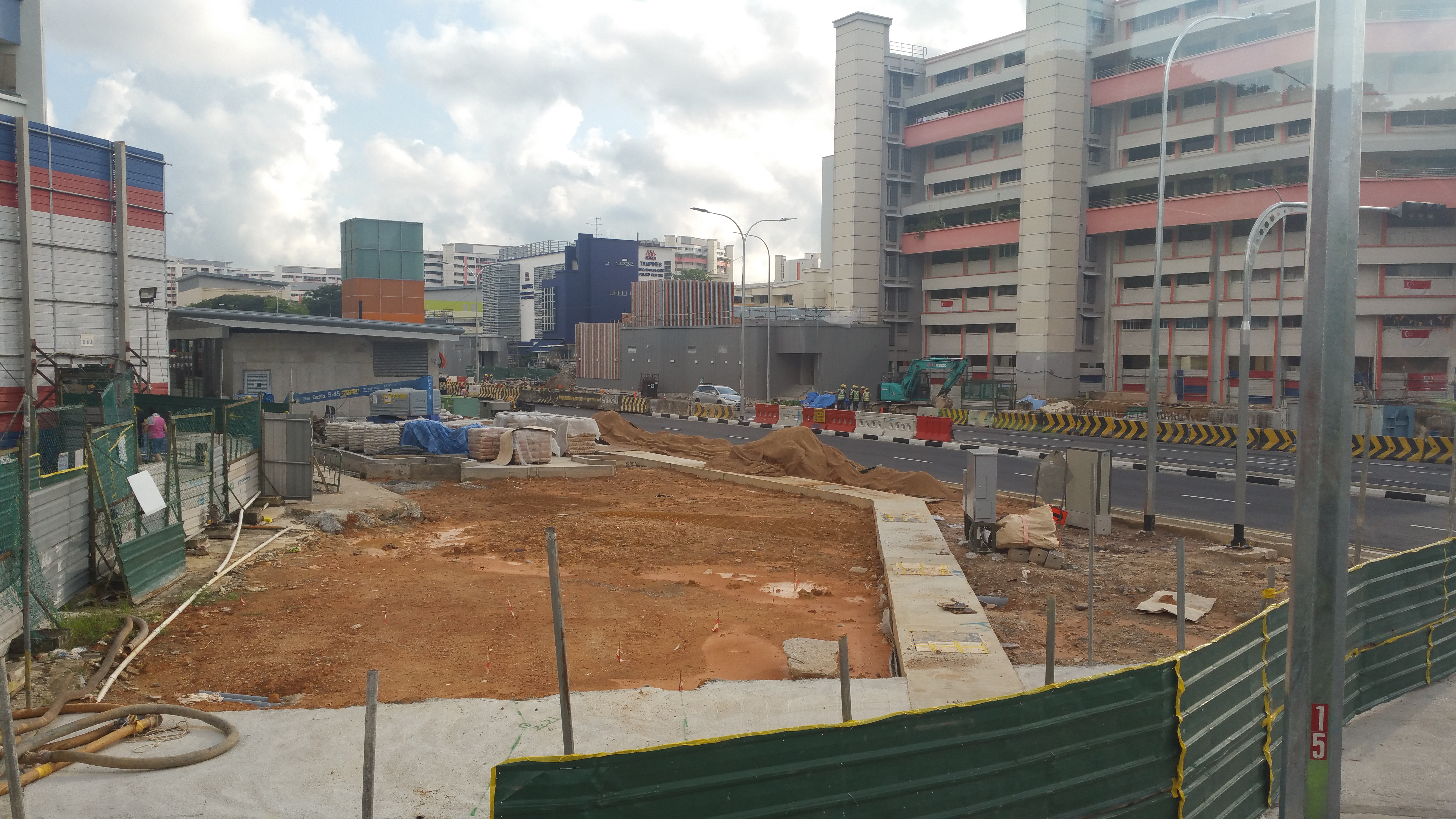 Another view of Tampines West Station, under construction.